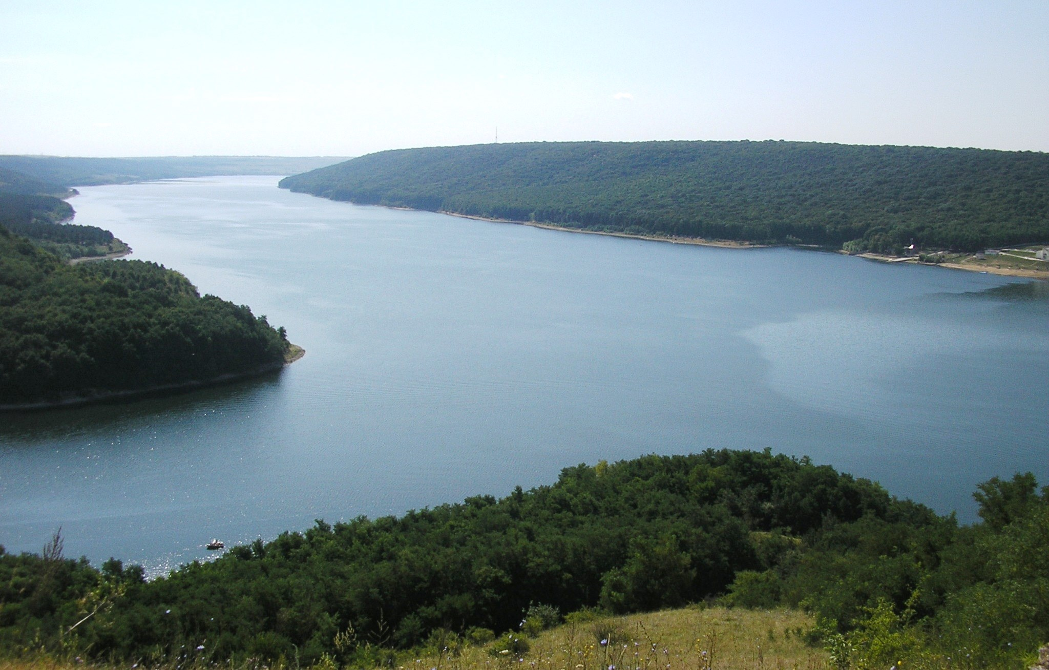 Dnestr storage reservoir.